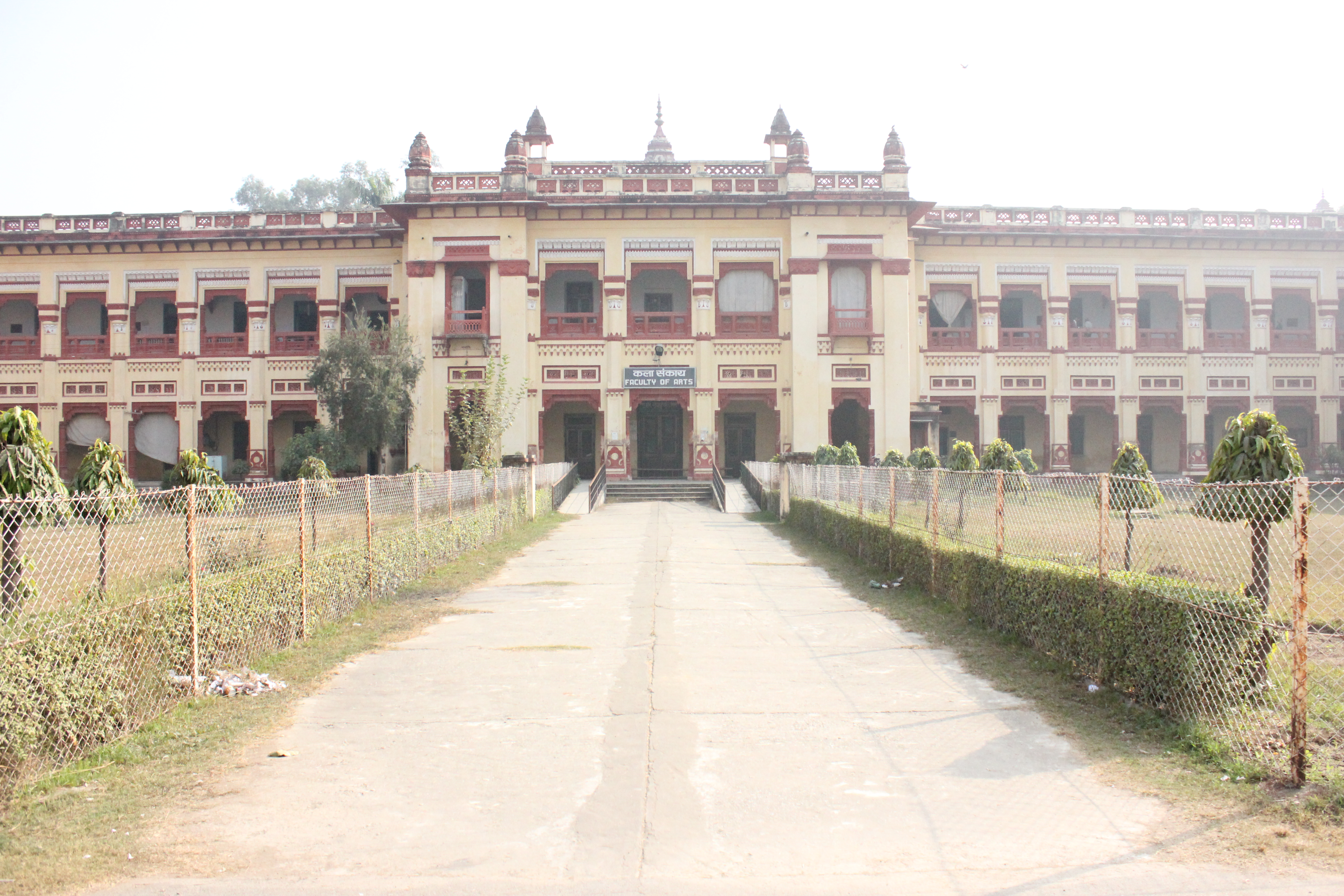 Picture of main building (South wing) of Faculty of Arts in Banaras Hindu University.